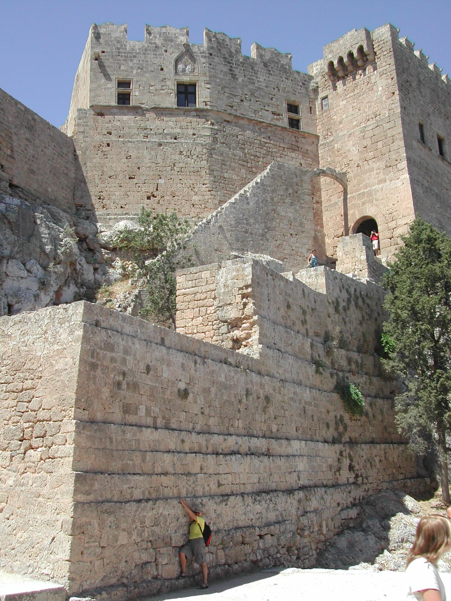 The Acropolis Castle